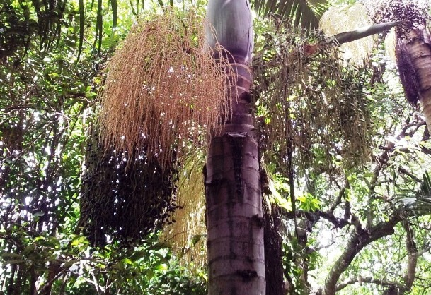 Fruits Hyophorbe verschaffeltii - endemic Rodrigues palm